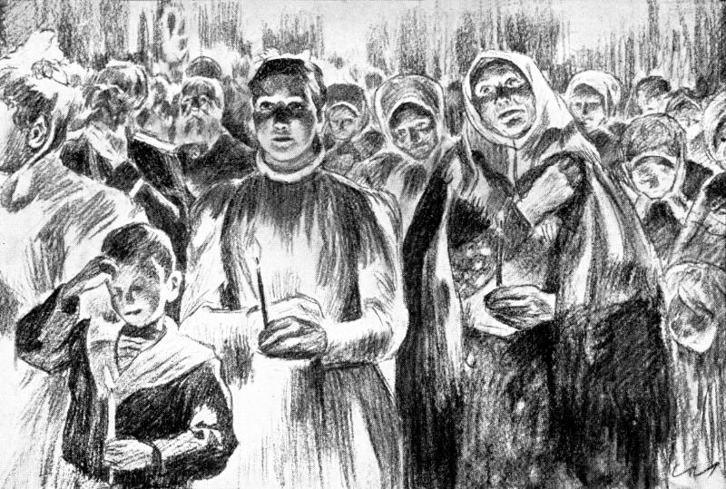 The Awakening: The Resurrection/Chapter 57 by Lev Nikolayevich Tolstoy (1828–1910)